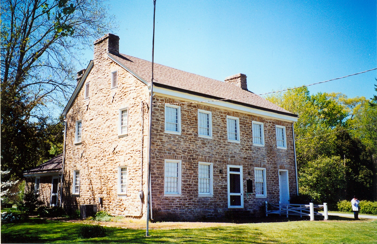 Waldschmidt House, which served as headquarters for Camp Dennison, Ohio, USA